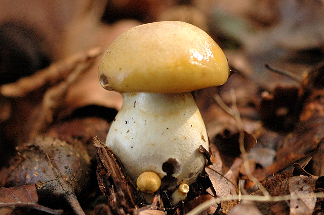 Cortinarius delibutus from Commanster, Belgium. If you think this is a different taxon, please contact James Lindsey.